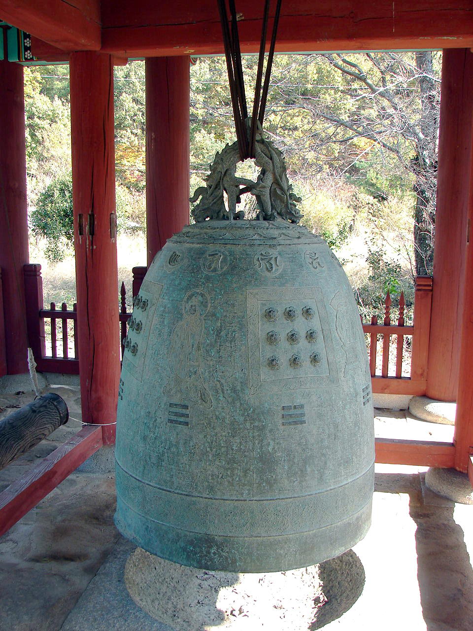 Neunggasabeomjong (Bronze bell of Neunggasa Temple) was cast in 1698 at Neunggasa (Buddhist temple) located at the base of Paryeong mountain. On the upper part of the bell are engraved 'Beomja' (an ancient Indian letter in Sanskrit) Two engraved dragons holding beads suspend the 900 kg/1982 lb bronze bell. A Bodhisattva is engraved on the upper part of the bell. Flowers, Dangchomun, and a pattern of vines spreading in two lines decorate the lower part of bell. The Bronze Bell of Neunggasa is Tangible Cultural Property #69.